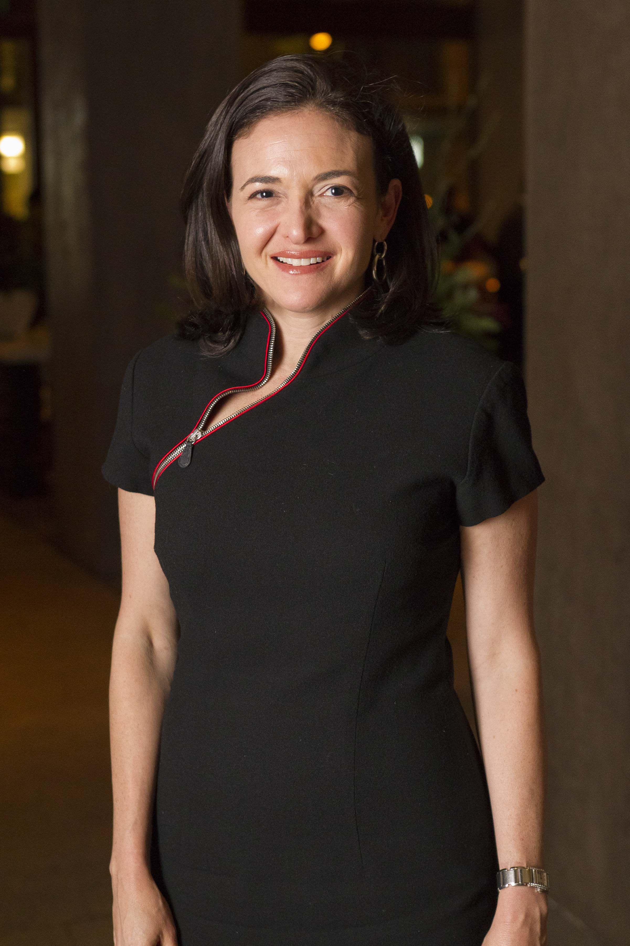 Sheryl Sandberg at the Moët Hennessy Financial Times Club Dinner, San Francisco. (Per Flickr description: "Photo Credit: Drew Altizer".)